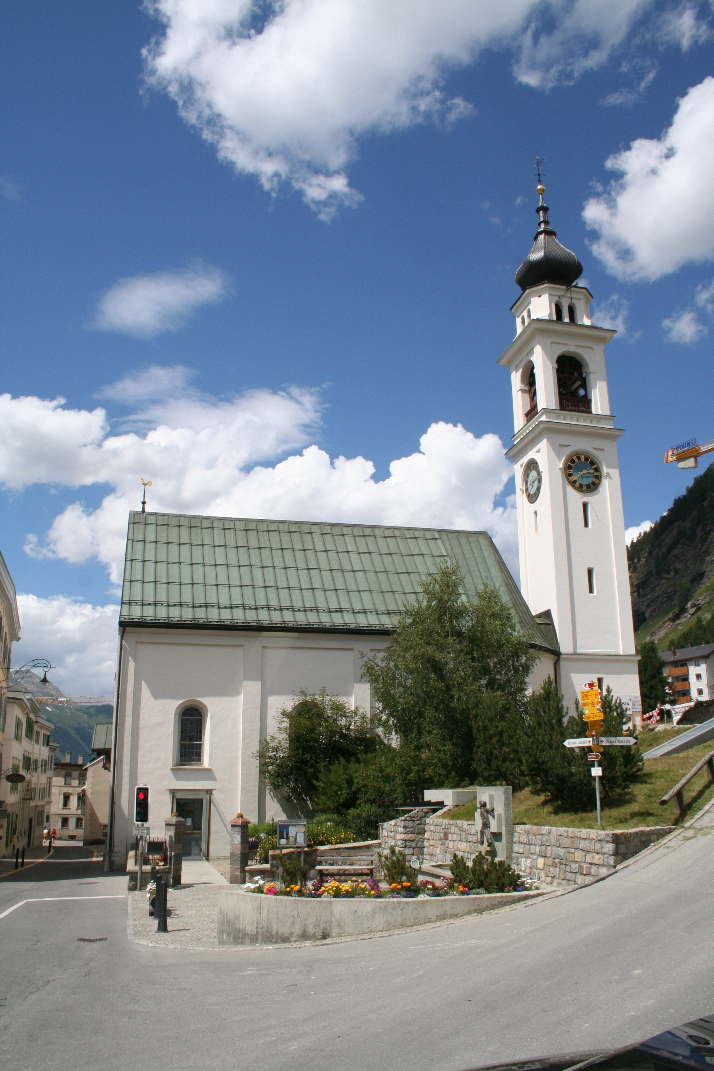 Kirche San Niculò in Pontresina